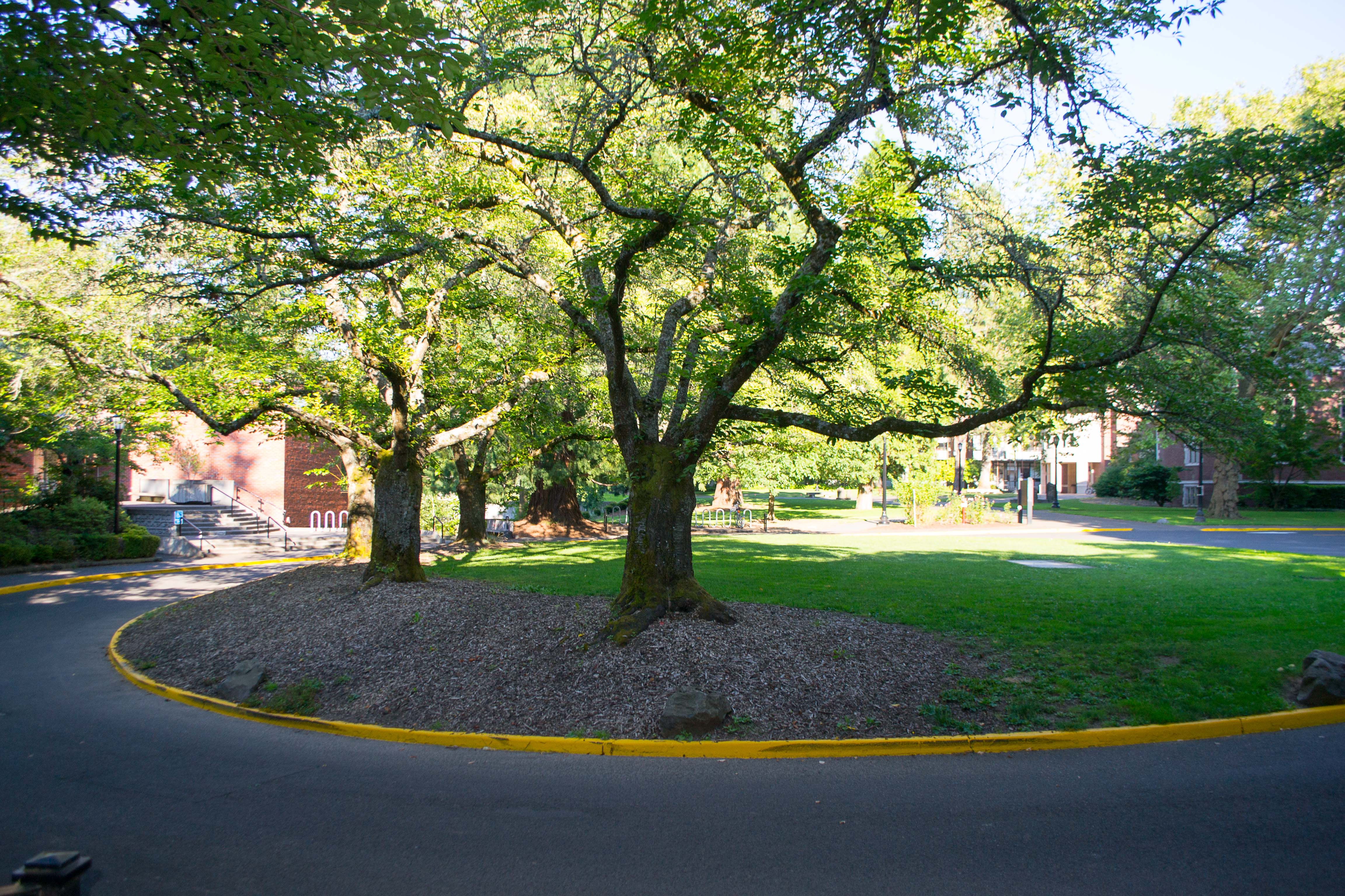 The circle was designed in 1967 as the new east entrance to Eliot Hall at Reed College